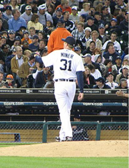 Zach Miner on the mound for the Detroit Tigers